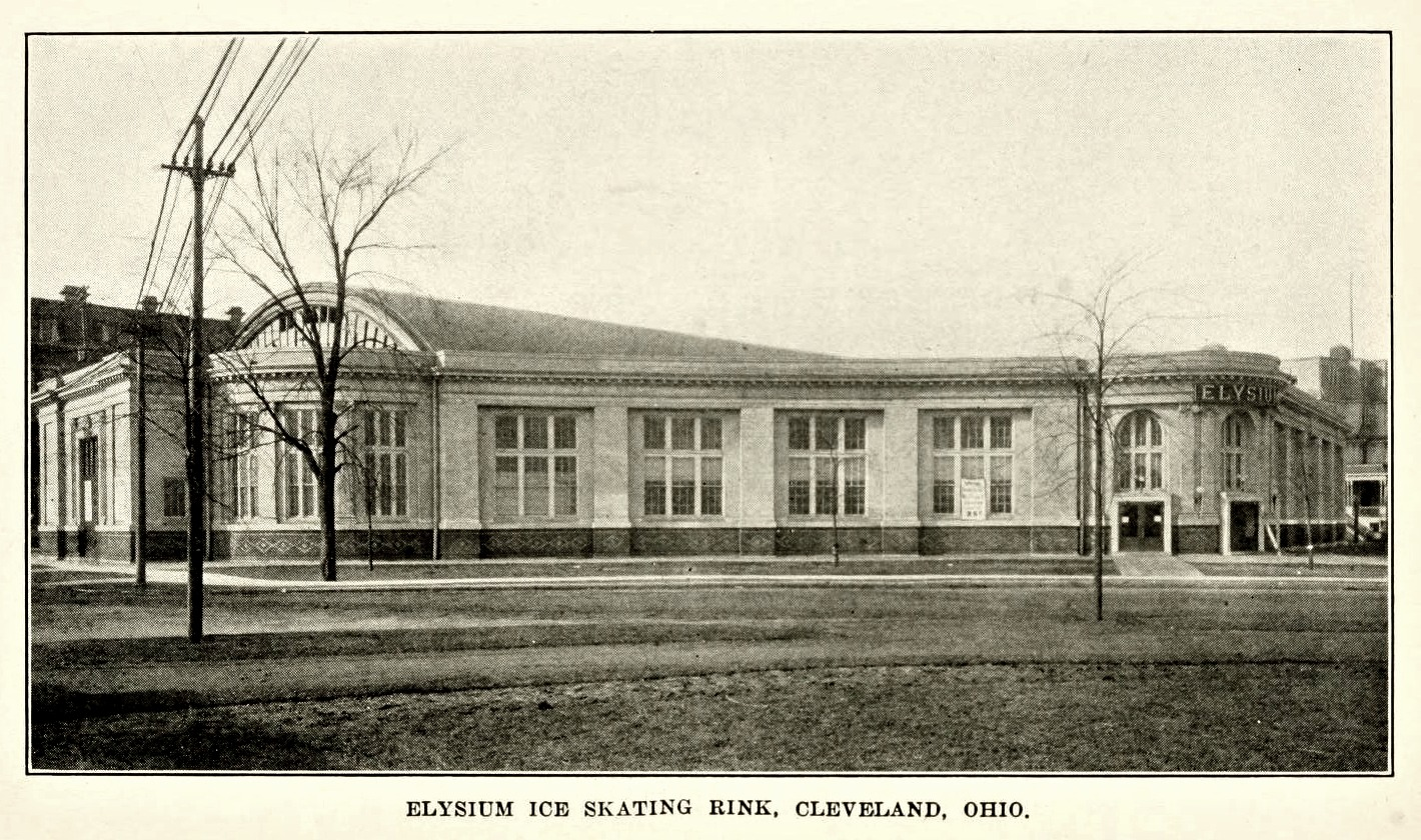 Elysium Arena in Cleveland, Ohio, c. 1908